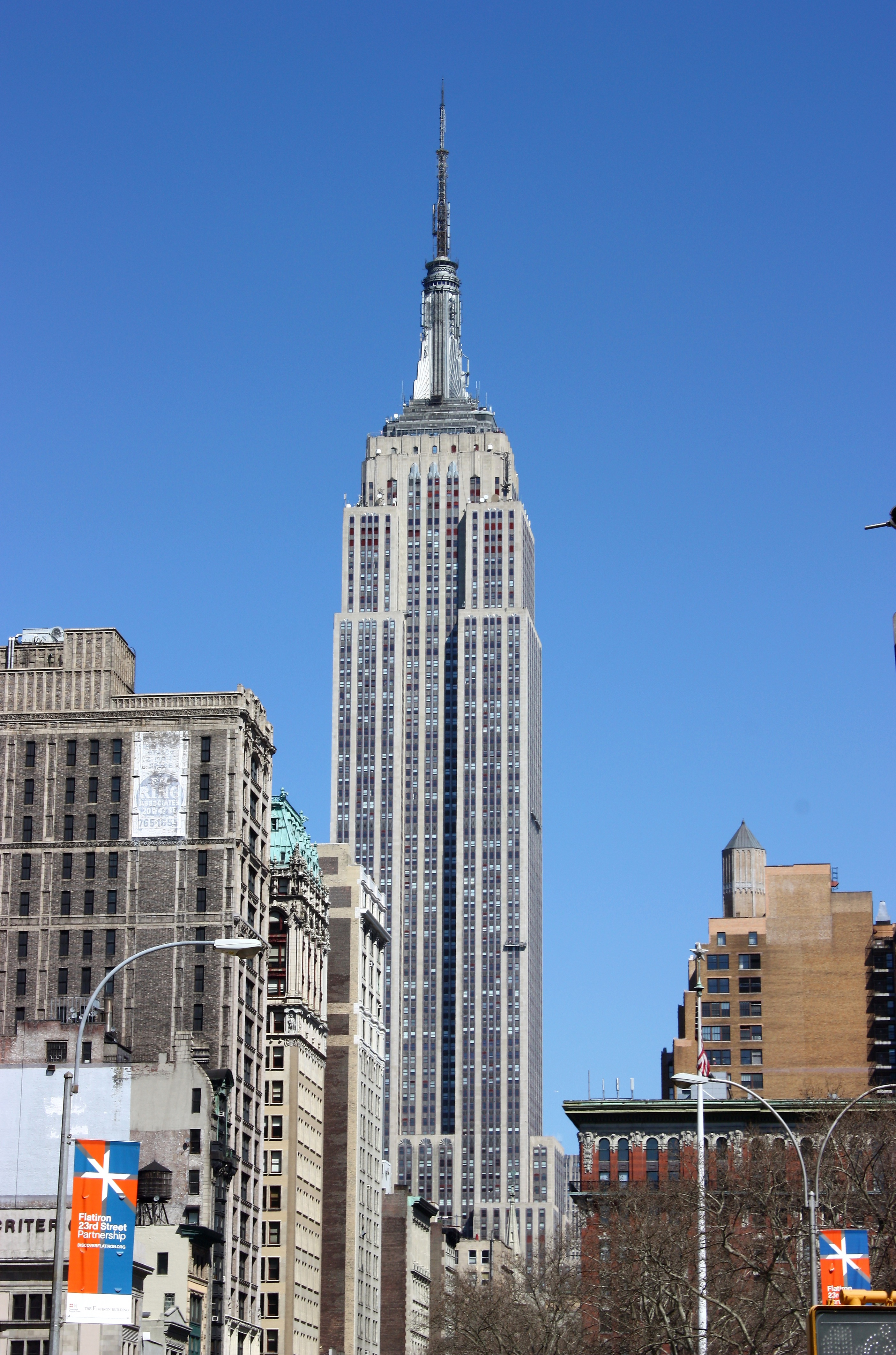 Empire State Building